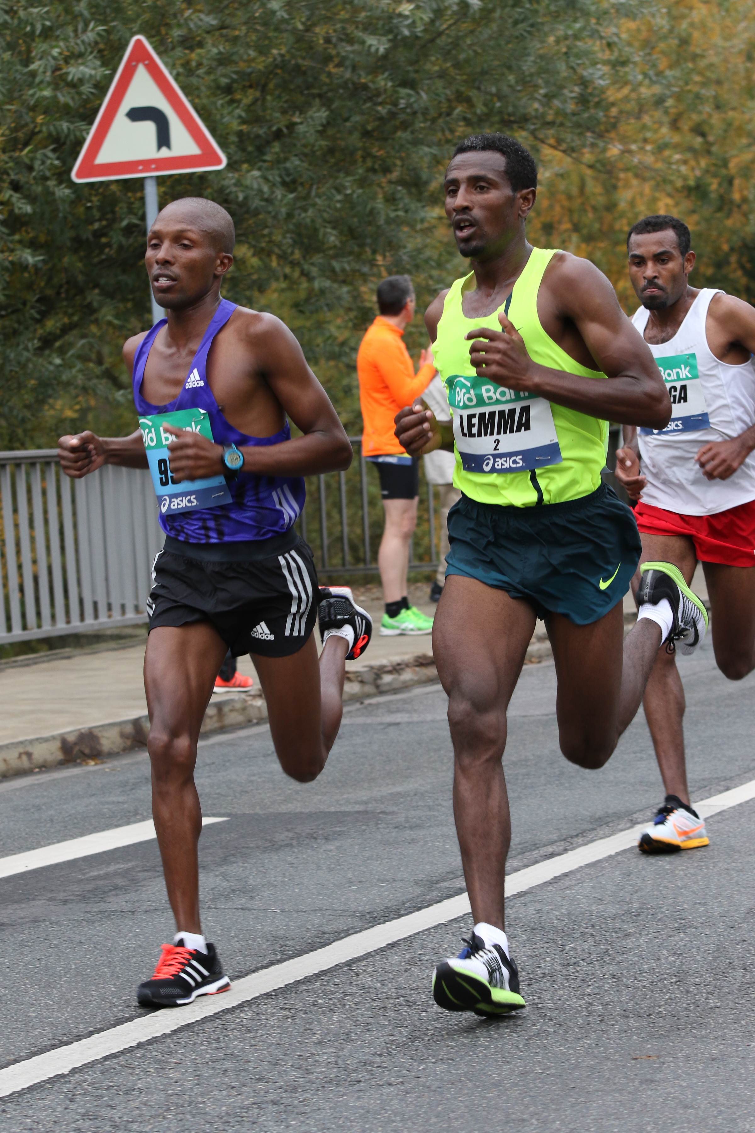 Frankfurt Marathon 2015 Old Nidda Bridge, Frankfurt-Nied, Wilfred Kirwa Kigen, Sisay Lemma Kasaye